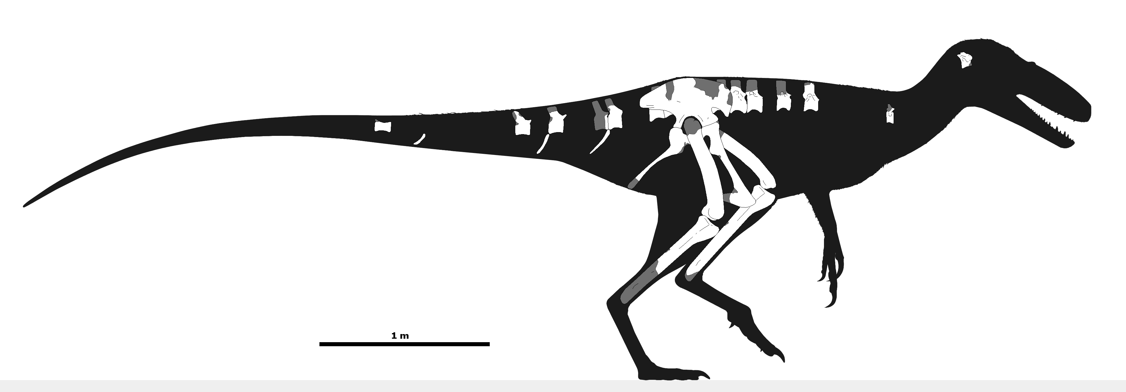 A diagram representing the known material of the holotypic specimen of Juratyrant. Missing elements restored with Stokesosaurus skeleton by Scott Hartman, Skull restored after Eotyrannus)